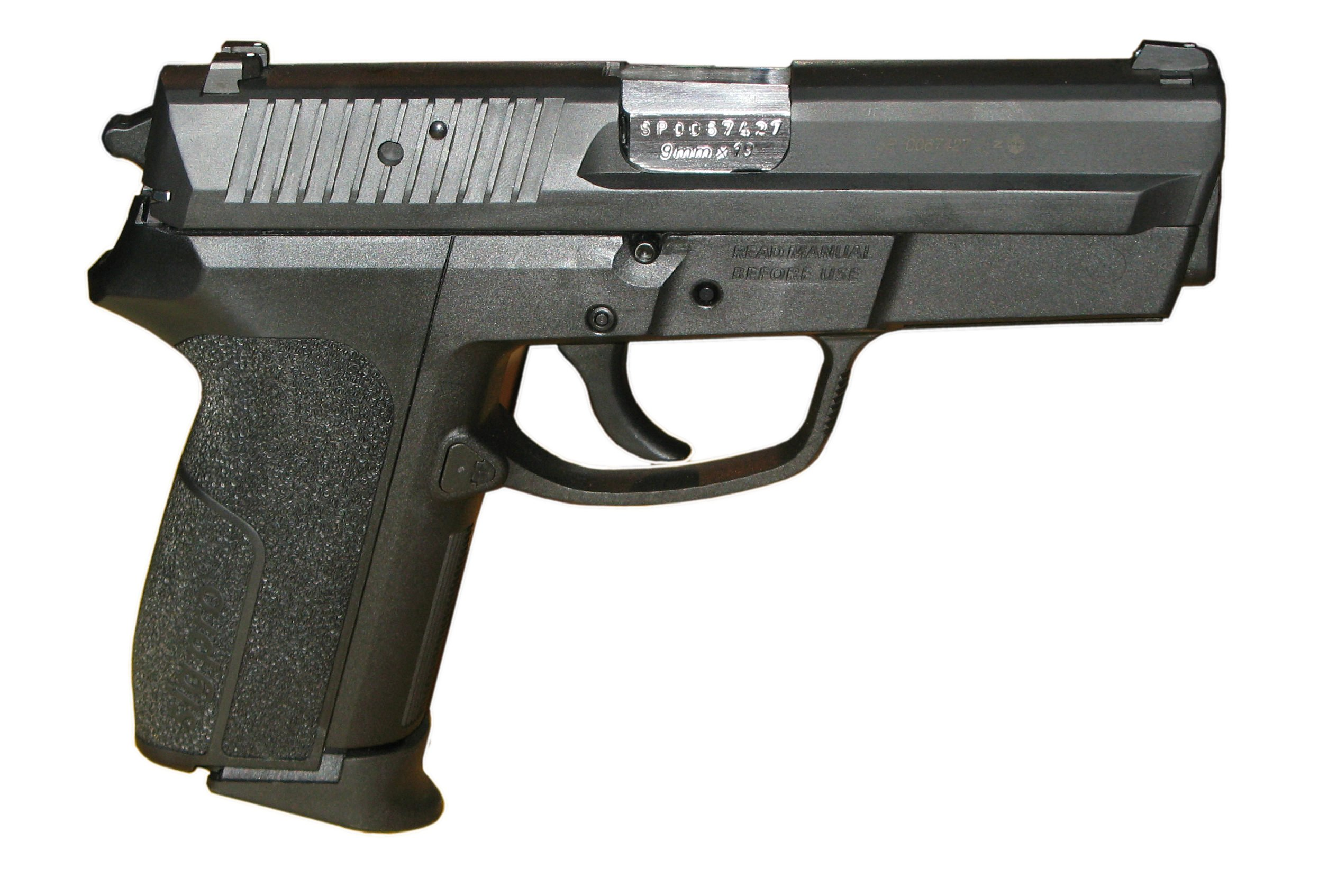 SIG Pro SP 2009